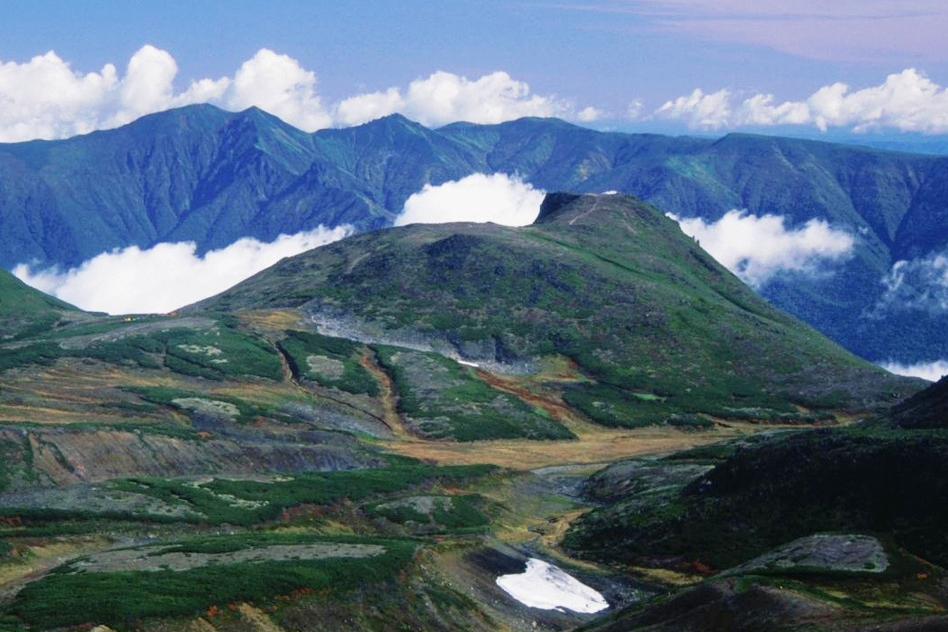 Mount Kuro (Kuro-dake) seen from the SW. Taken from Mount Hokkai. Mount Niseikaushuppe in the left background.